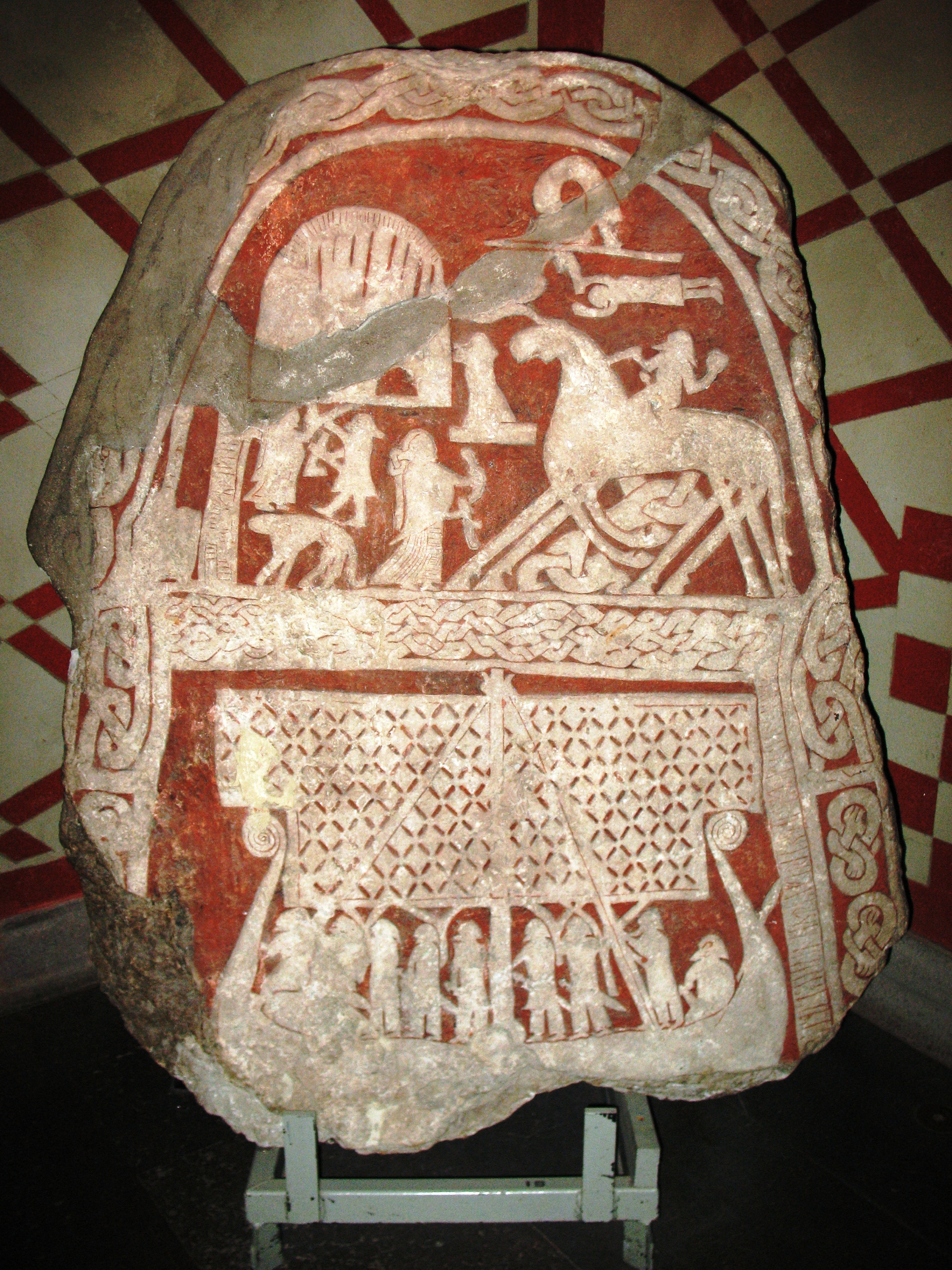 Picture stone from Tjängvide, Alskog Parish, Gotland, Sweden.